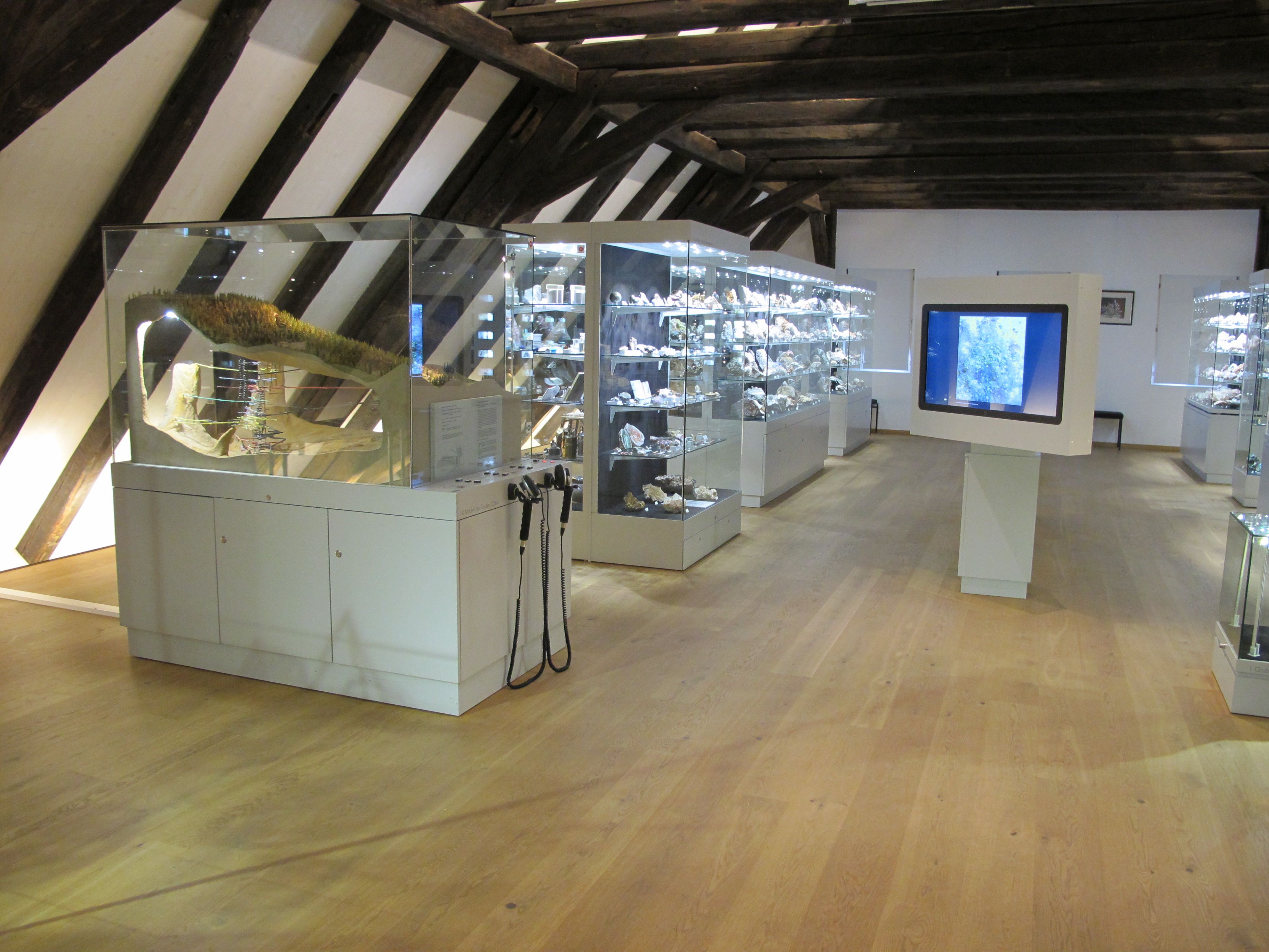 Visit at the Museum of Minerals and Mathematics in Oberwolfach during the AdminCon 2018